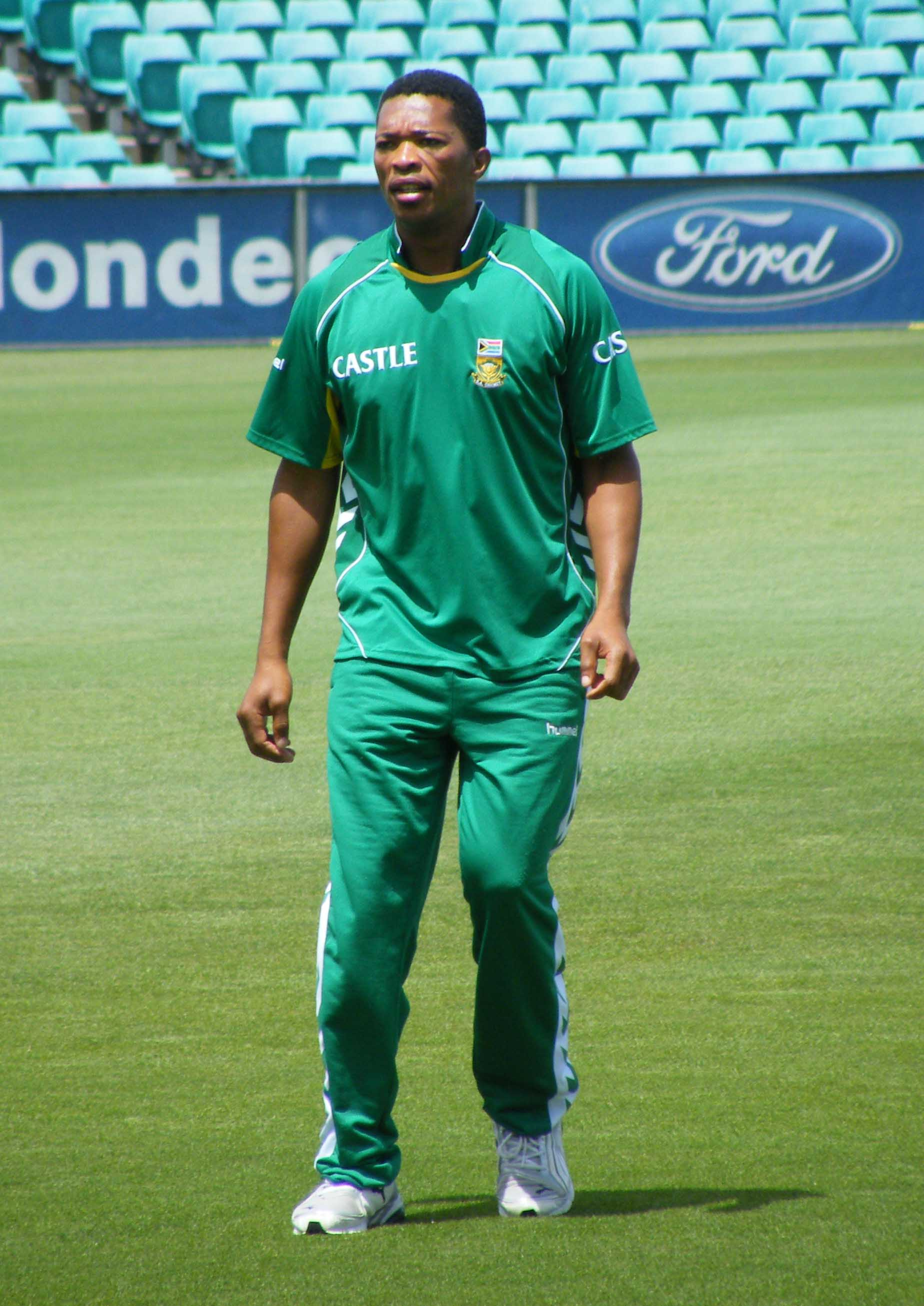 Makhaya Ntini during a training session at the Sydney Cricket Ground 01 January 2009.